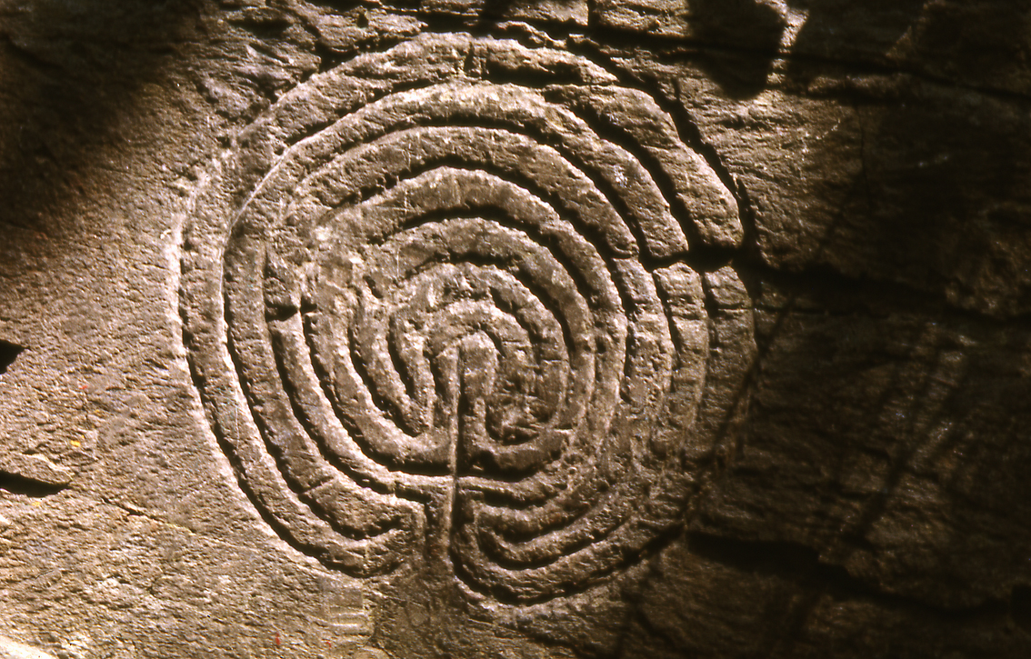 This is a scan from a transparency which I took in the mid 1970s. It shows one of the two very similar small labyrinth patterns cut into the cliff face at Rocky Valley, Tintagel, Cornwall, England. They are of unknown date. The Bronze Age has been suggested, but it is equally possible that they were made by workmen at the nearby mill (now ruined). [But see below.] (Simon Garbutt, 8 Nov 2005) This scan is in the Public Domain (however, I retain ownership and copyright of the original transparency and any higher-resolution scans derived from it). SiGarb 19:06, 8 November 2005 (UTC) [Given the softness of the rock and the clarity of the carving, and the absence of any clear evidence for great age, it is more likely that the Rocky Valley labyrinths date from the 18th or 19th century; other carvings at the mill are more firmly datable to the last few centuries. See Abegael Saward, "The Rocky Valley Labyrinths", Caerdroia 32 (2001), p. 21–27. -- Elphion (talk) 13:37, 21 March 2012 (UTC)]